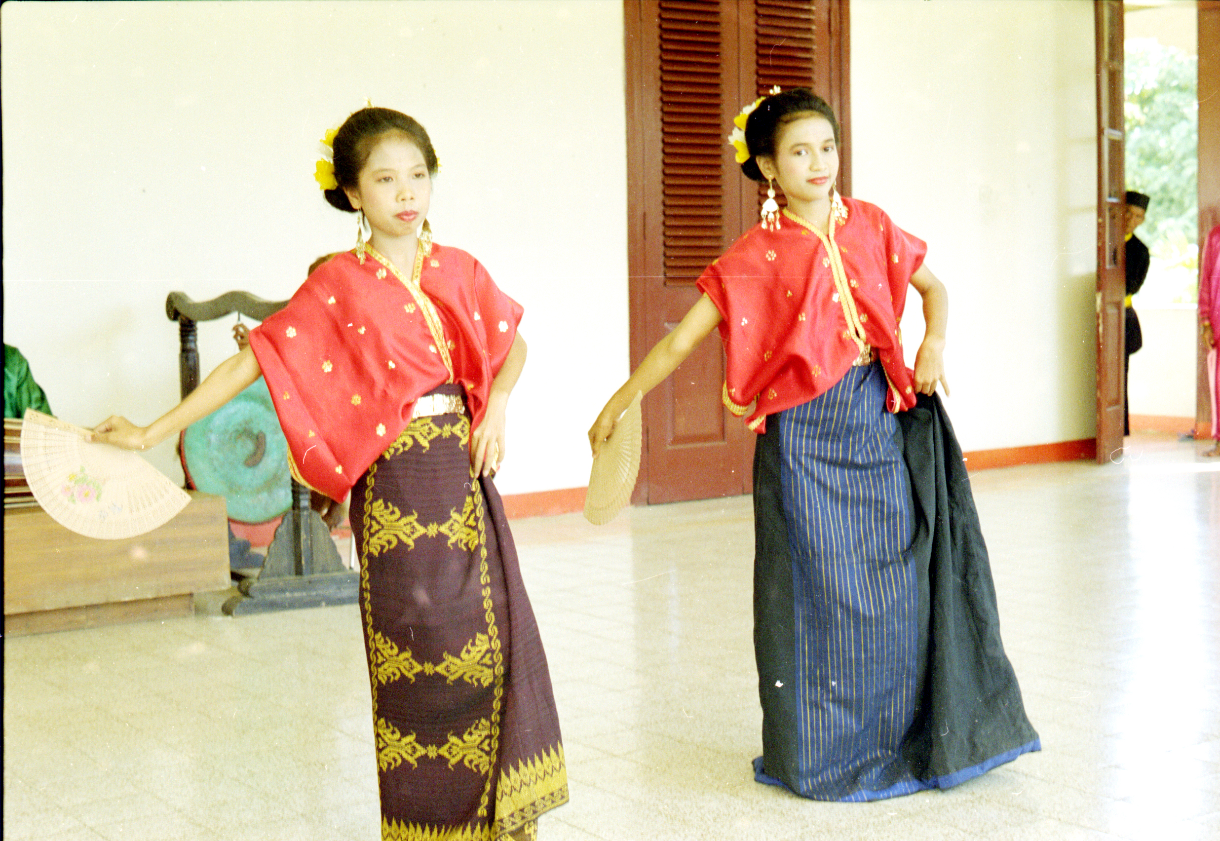 Public dancing by children, in the old Sultan's palace